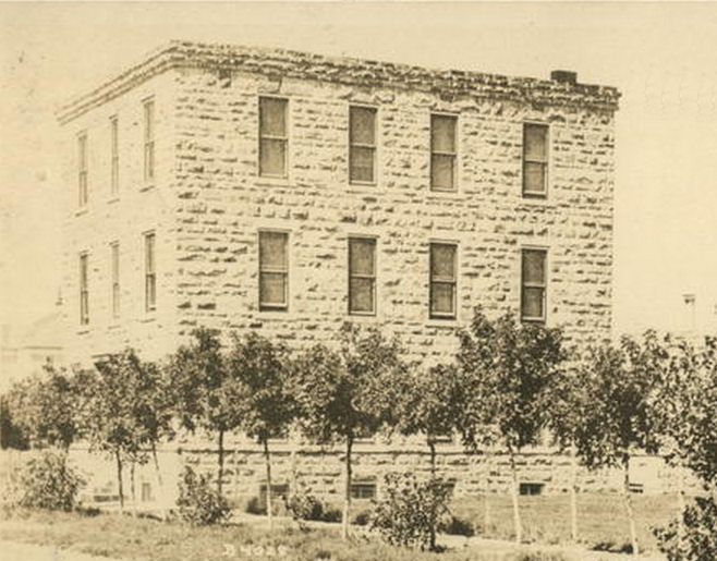 Picture of the Stone Hotel, Linton, North Dakota, from a postcard dated 1913